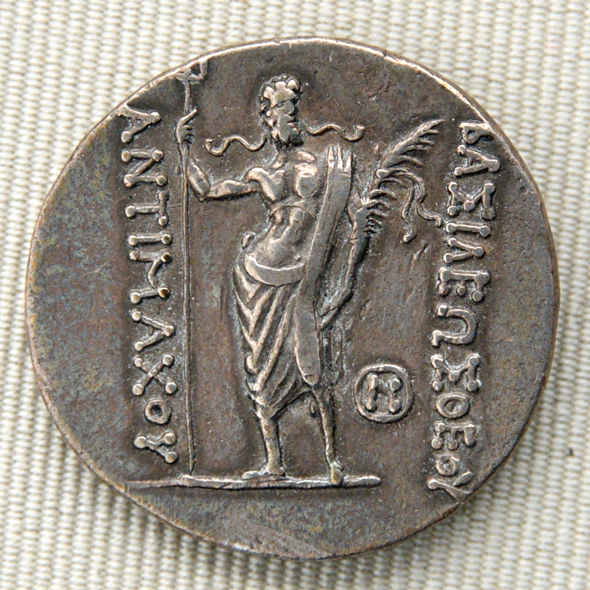 Tetradrachm of Antimachus I Theos, king of Bactria; reverse: Poseidon draped in a himation and holding a trident and a palm branch, Greek inscription.